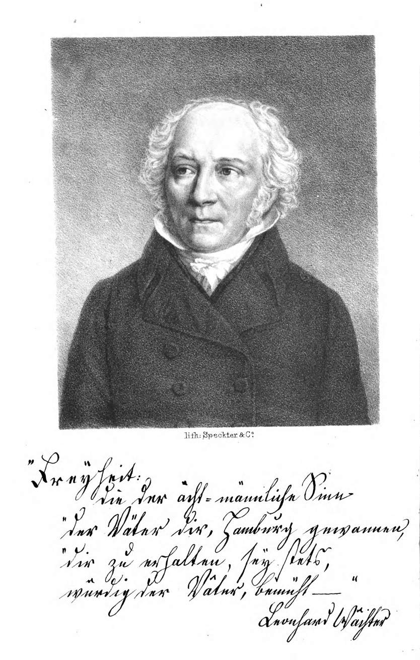 German writer Leonhard Wächter. from: Historischer Nachlaß. Herausgegeben von C. F. Wurm. 2 Bände. Hamburg 1838–1839